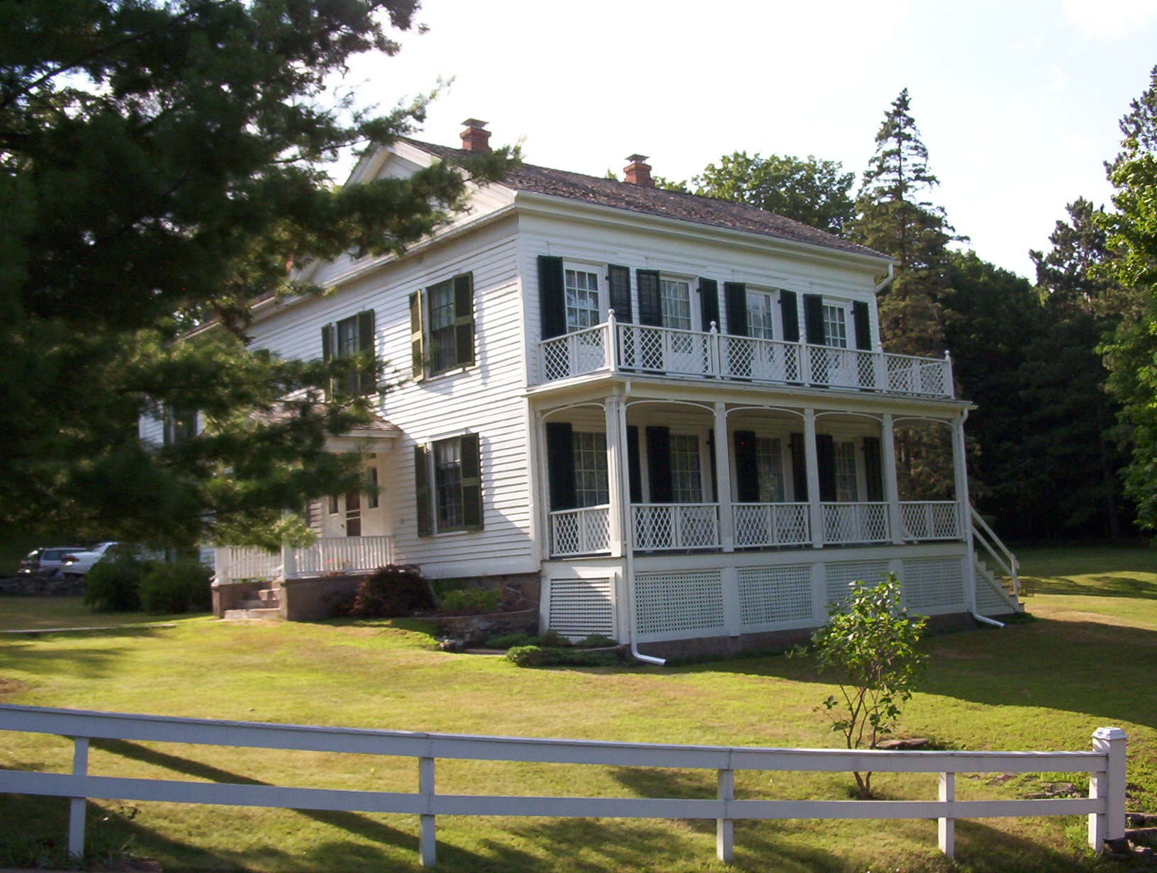 The William H. C. Folsom house in Taylors Falls, Minnesota.